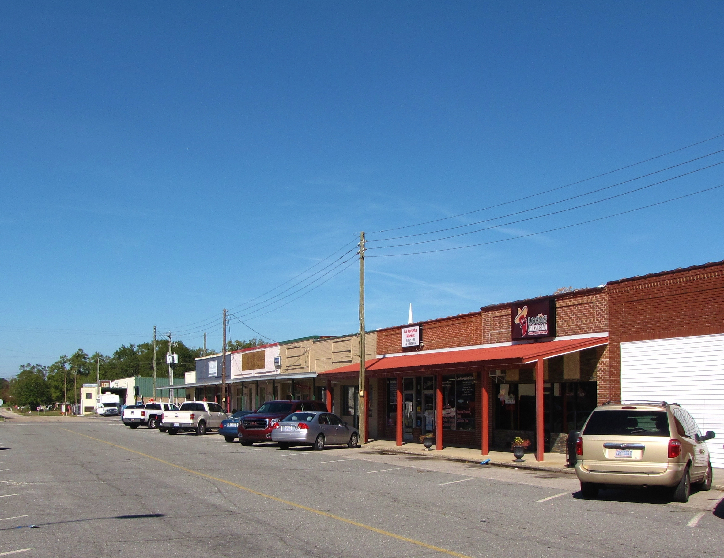 Garland, North Carolina is a small town in Sampson County. It is home of the Garland Shirt Company which makes dress shirts for Brooks Brothers. Garland is one of the few towns left in southeastern NC with a working textile factory. Most of them were closed in the aftermath of the North American Free Trade Agreement. NAFTA left thousands of people in the state jobless and the state has yet to recover from the lost jobs.